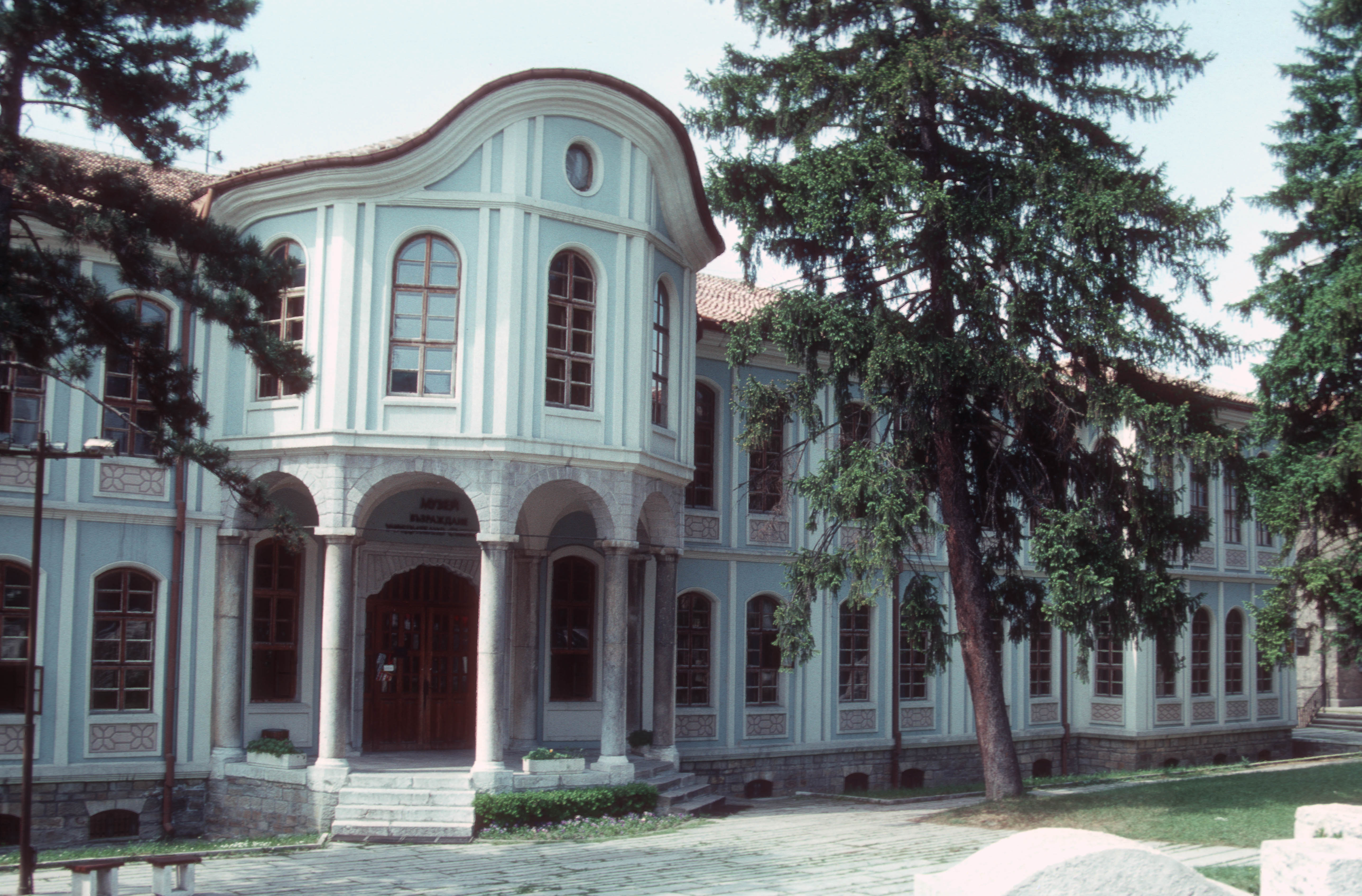 THIS IS A HOUSE IN THE OLD TOWN ON ONE OF THE HILLS ABOVE THE YANTRA RIVER WHICH SHOWS THE BULGARIAN NATIONAL REVIVAL STYLE